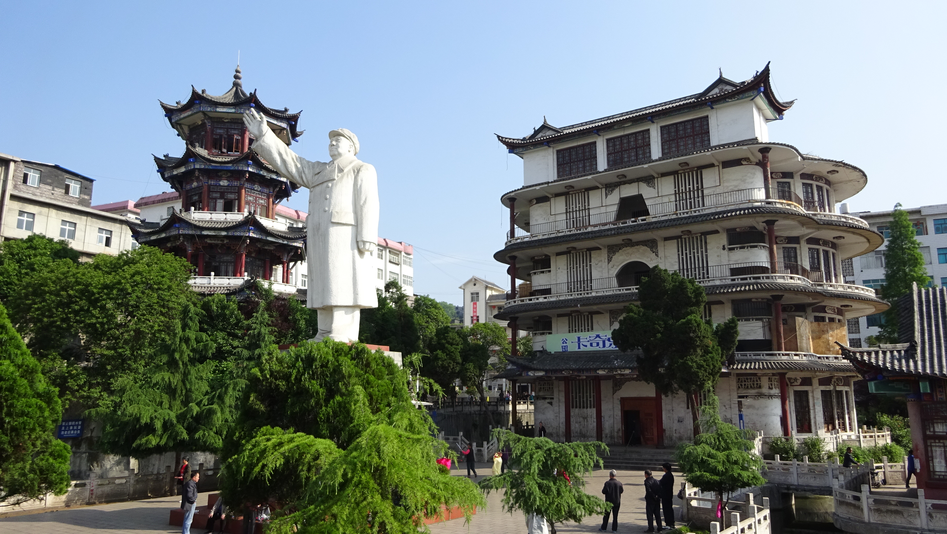 Zhenxiong People's Park. Zhenxiong County, in Zhaotong City, Yunnan Province, China